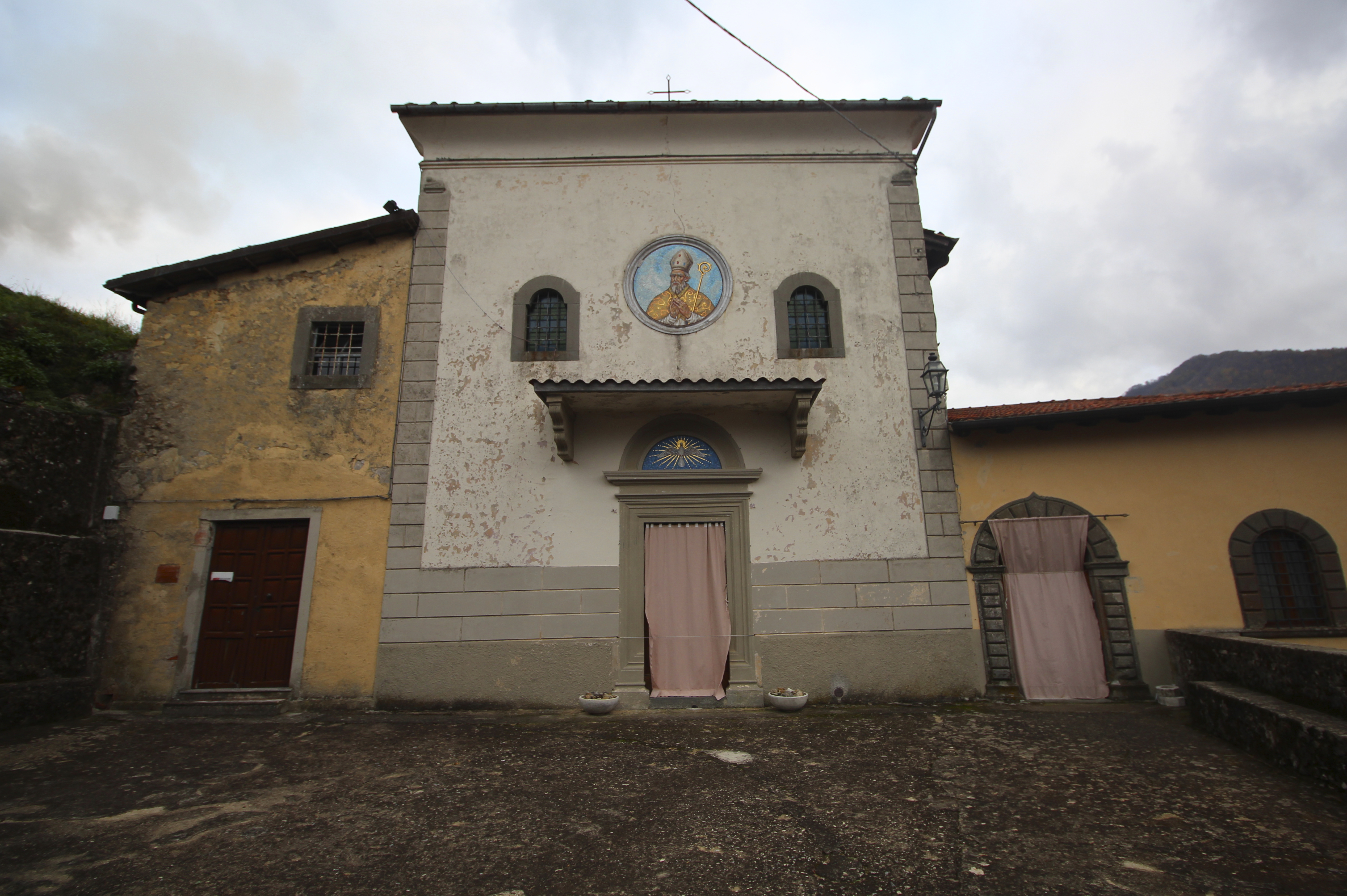 Church San Martino, Verni, hamlet of Gallicano, Garfagnana, Province of Lucca, Tuscany, Italy